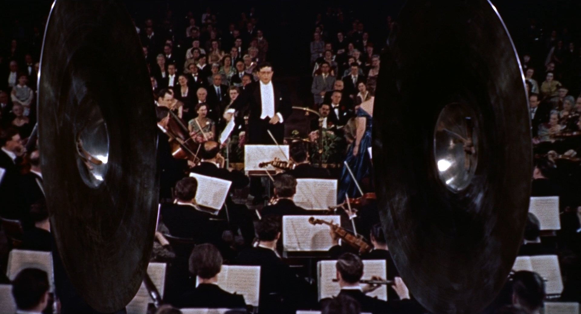 Alfred Hitchcock's "The Man Who Know Too Much" (1956 version) trailer - Bernard Herrmann conducting Bande-annonce du film d'Alfred Hitchcock "L'Homme qui en savait trop" (version de 1956) - Bernard Herrmann chef d'orchestre (à l'arrière-plan)